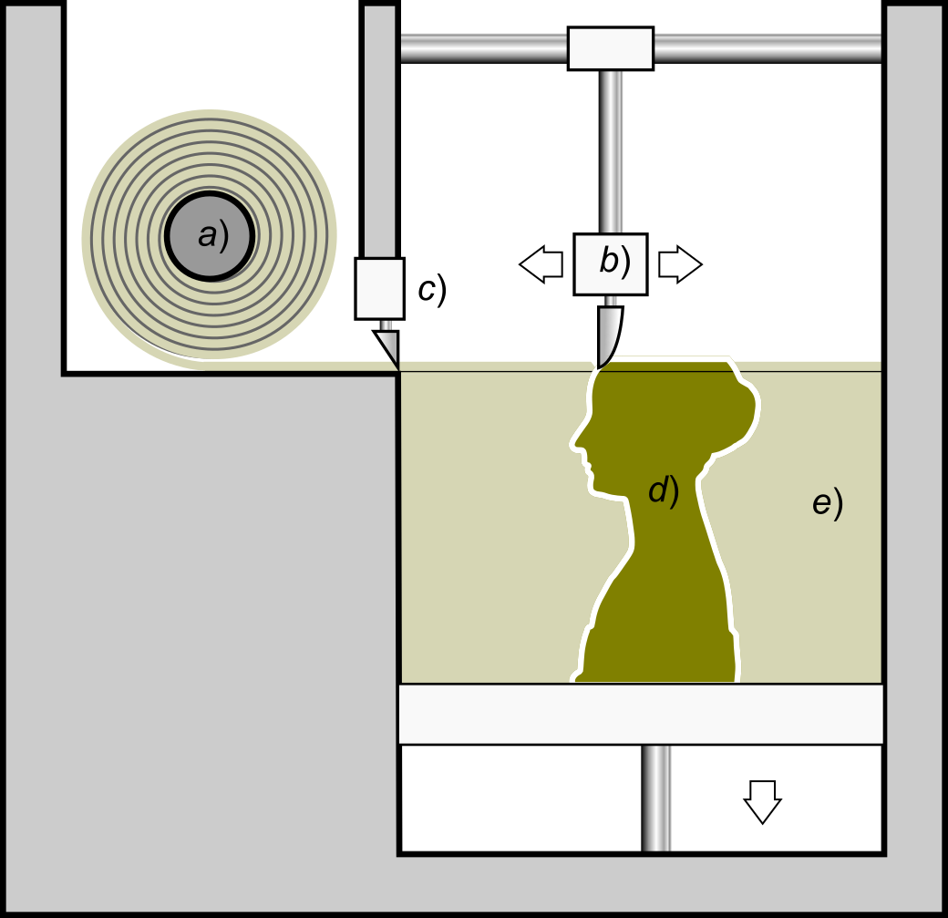 Schematic representation of the 3D printing technique known as Laminated Object Modeling